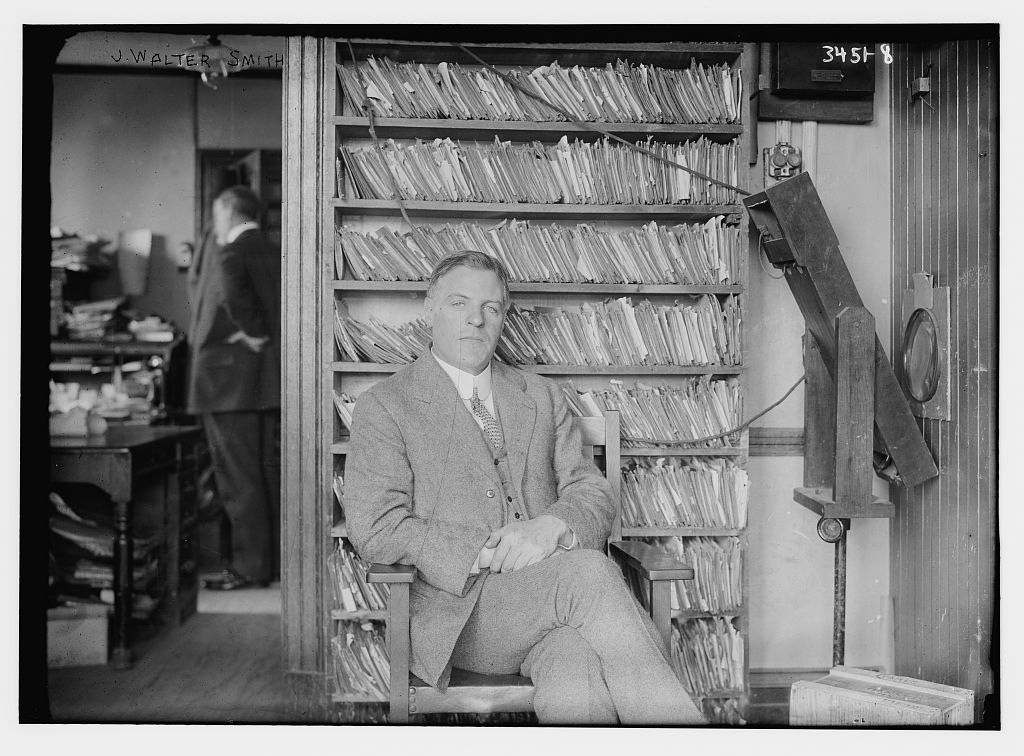 J. Walter Smith in 1916 at the Bain photos studio in Manhattan